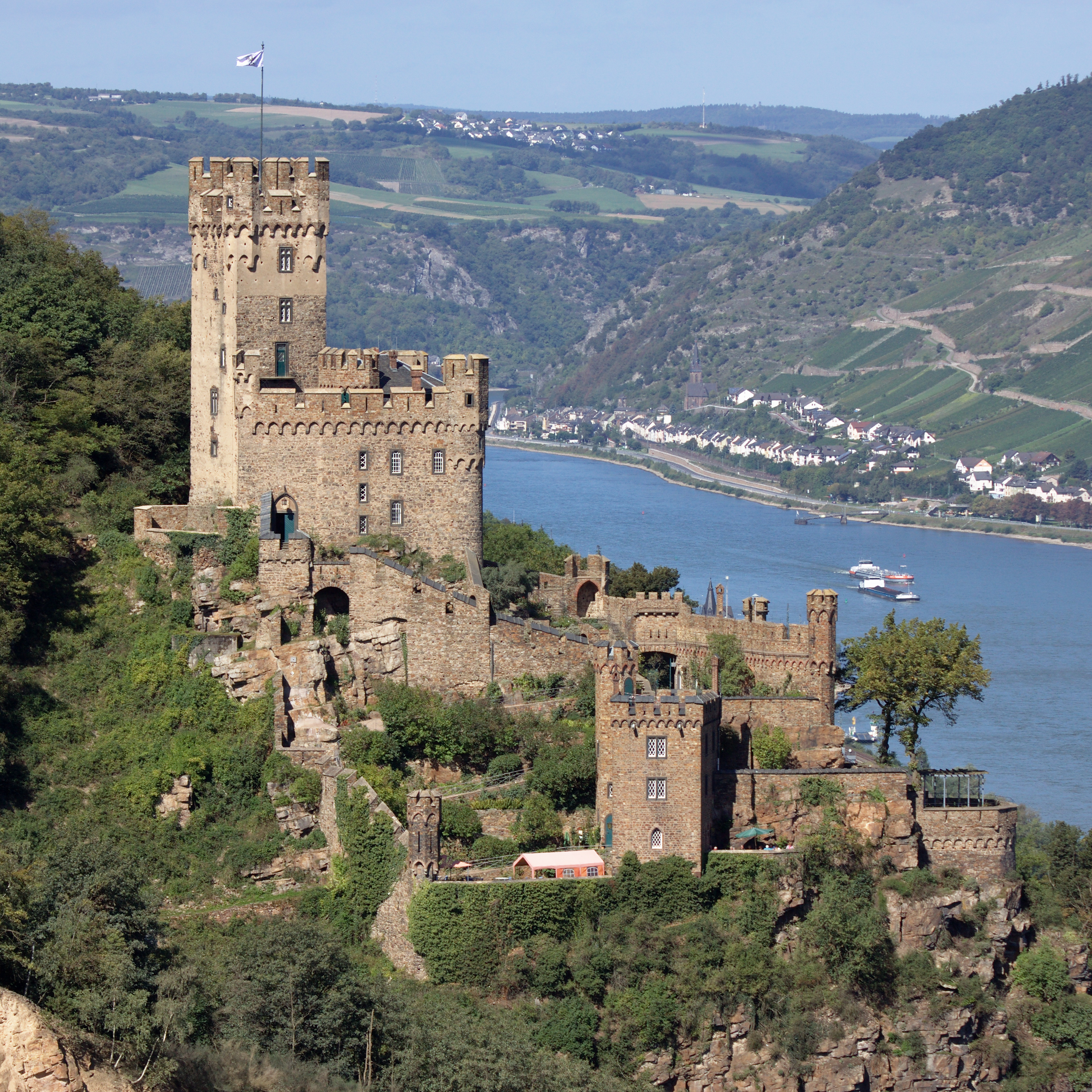 Sooneck castle near Niederheimbach, Rhine, Germany. View from south-eastern direction.